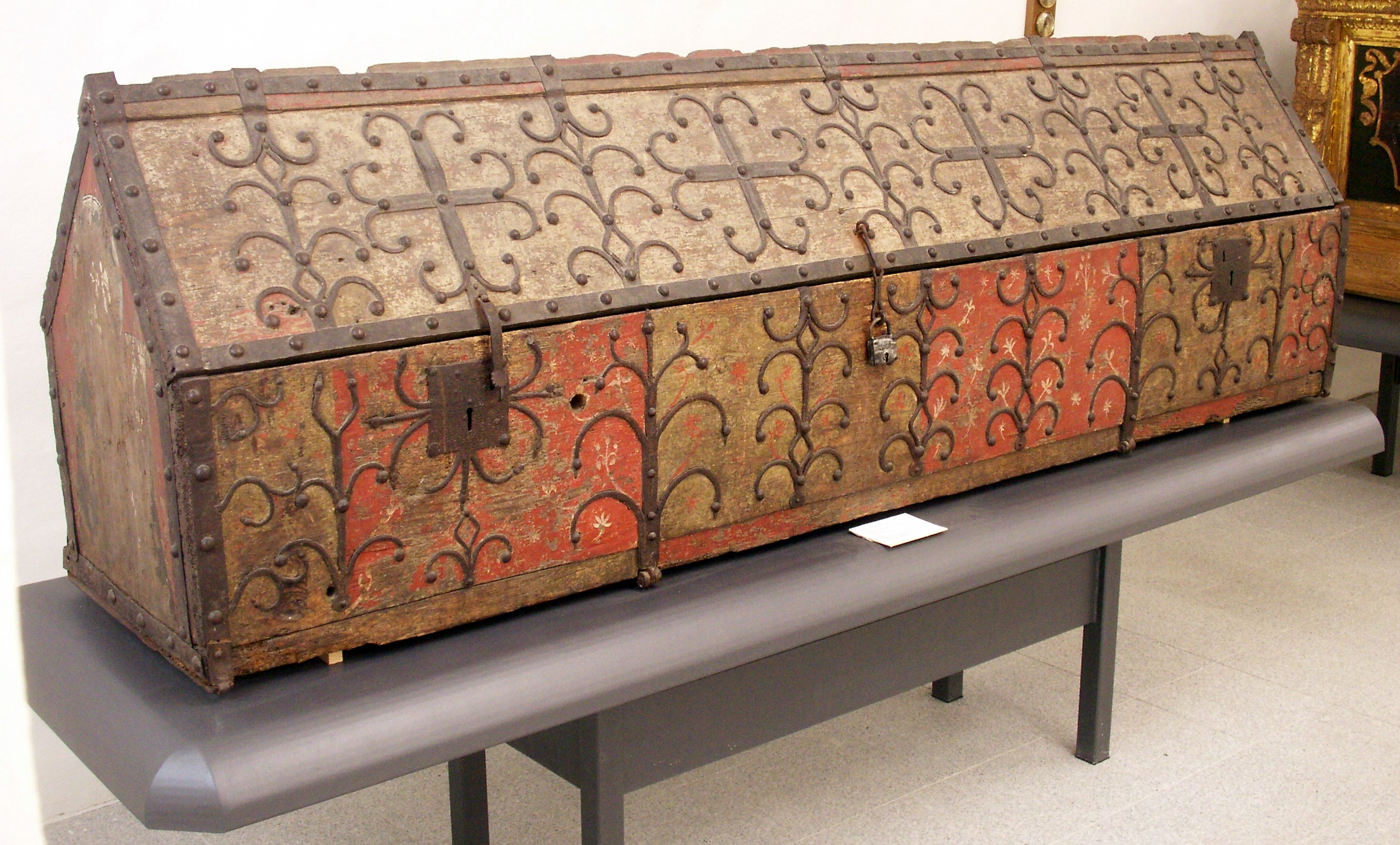 Romanesque shrine with relics of holy Domitian in Millstatt Abbey / district Spittal an der Drau in Carinthia / Austria / EU.